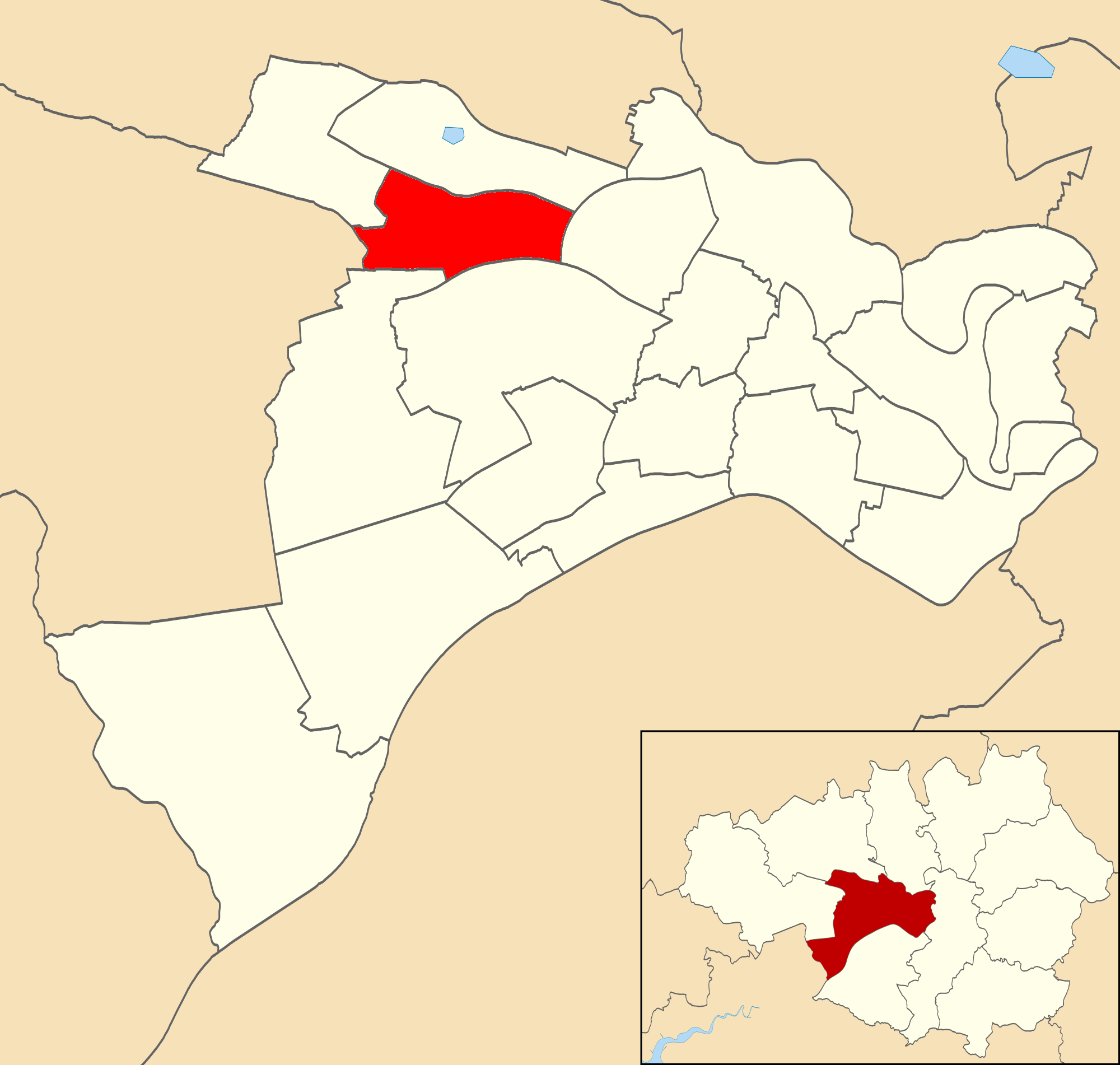 Map showing location of Walkden South ward within Salford City Council.